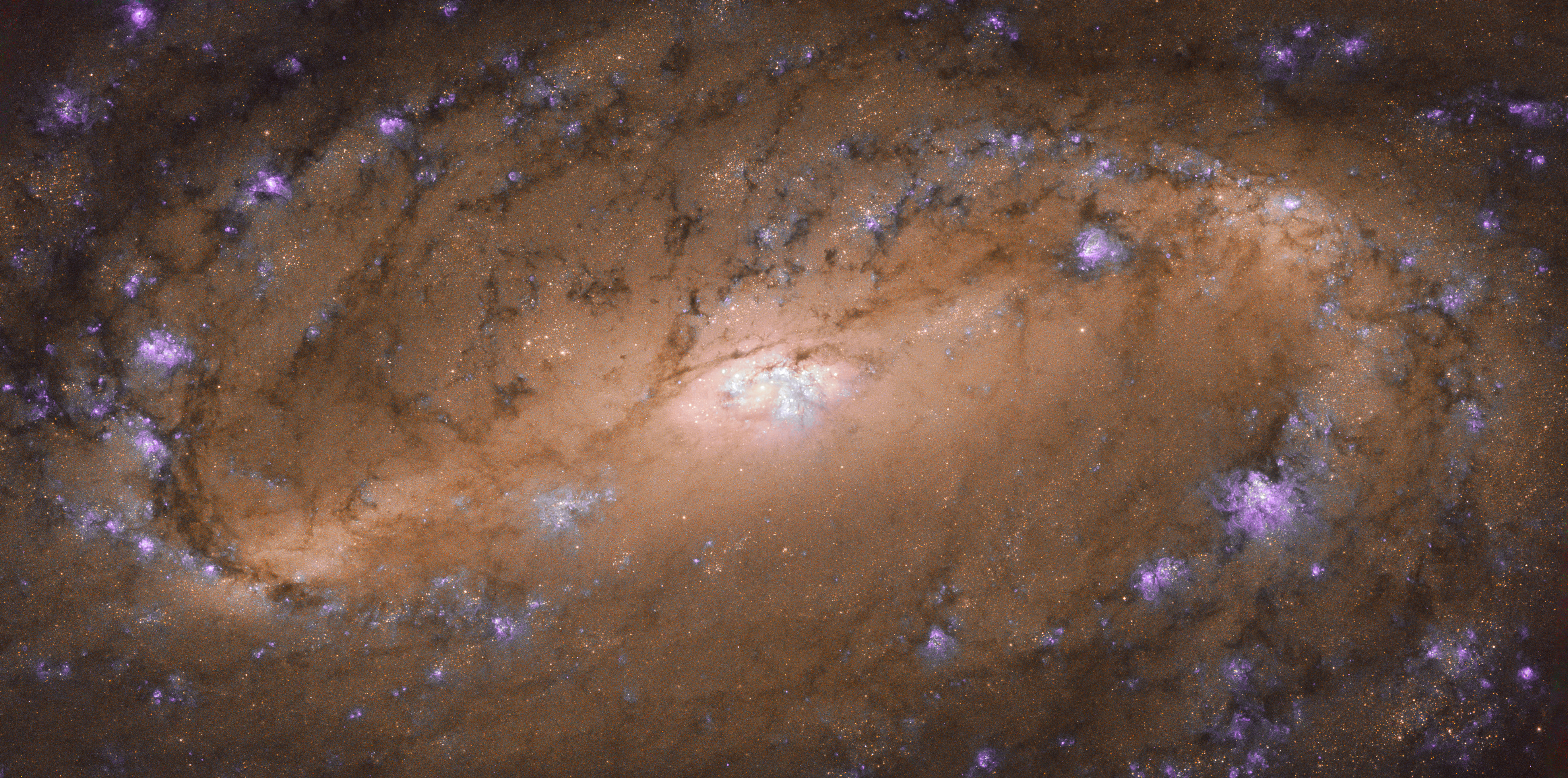 Iconic[1] Few of the Universe’s residents are as iconic as the spiral galaxy. These limelight-hogging celestial objects combine whirling, pinwheeling arms with scatterings of sparkling stars, glowing bursts of gas, and dark, weaving lanes of cosmic dust, creating truly awesome scenes — especially when viewed through a telescope such as the NASA/ESA Hubble Space Telescope. In fact, this image from Hubble frames a perfect spiral specimen: the stunning NGC 2903. NGC 2903 is located about 30 million light-years away in the constellation of Leo (The Lion), and was studied as part of a Hubble survey of the central regions of roughly 145 nearby disc galaxies. This study aimed to help astronomers better understand the relationship between the black holes that lurk at the cores of galaxies like these, and the rugby-ball-shaped bulge of stars, gas, and dust at the galaxy’s centre — such as that seen in this image. References ↑ NASA/Goddard Space Flight Center (3 May 2019). "Hubble spots a stunning spiral galaxy". EurekAlert!. Retrieved on 4 May 2019. Credit: ESA/Hubble & NASA, L. Ho et al. Coordinates Position (RA): 9 32 10.11 Position (Dec): 21° 30' 5.72" Field of view: 3.29 x 1.63 arcminutes Orientation: North is 97.7° right of vertical Colours & filters Band Wavelength Telescope Optical NII 658 nm Hubble Space Telescope ACS Optical NII 658 nm Hubble Space Telescope ACS Optical I 814 nm Hubble Space Telescope ACS Optical I 814 nm Hubble Space Telescope ACS .